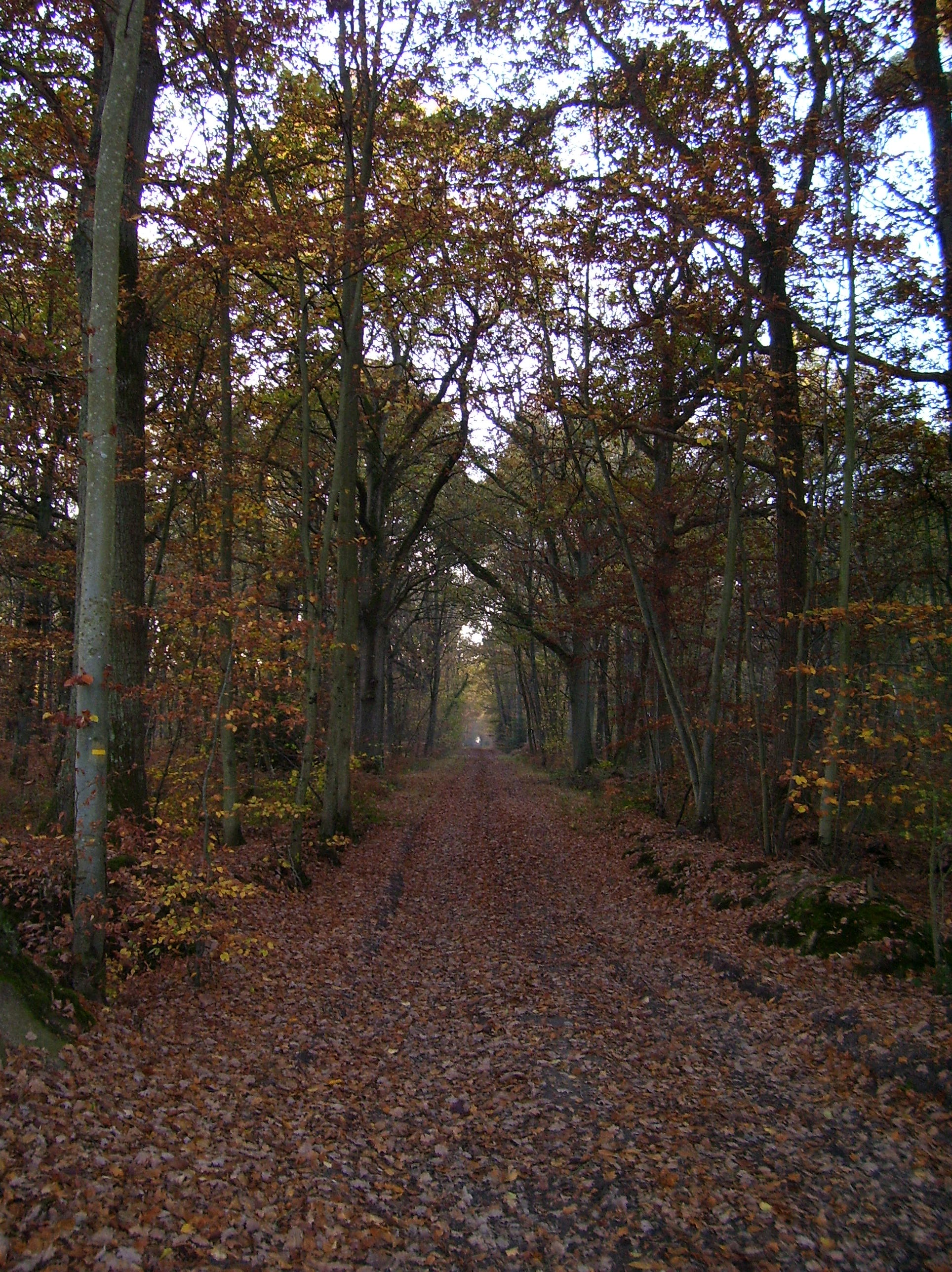 Forest of Plasnes (Normandie, France).